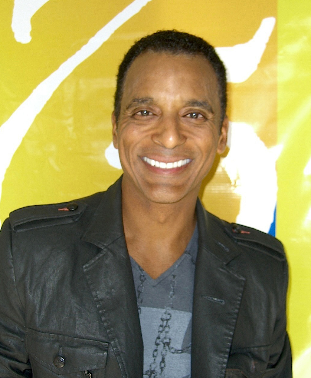 Grammy Award-winning singer Jon Secada, at a June 2, 2011 ceremony at Celia Cruz Plaza in Union City, Jersey, where he was honored by the city with a star at the Plaza's Walk of Fame for contributions to the world of Latin entertainment and media. Photographed by Luigi Novi. This photo is not in the public domain. It may, however, be used, modified and published for any purpose, free of charge, only if the photographer is properly credited, either by linking the photograph to this page, or with an easily visible credit to the photographer placed near the photo in each instance in which it is used. (See licensing information below.) Publication of this photo without this proper attribution constitutes copyright infringement. If you have any questions, you can contact me on my Wikipedia Talk Page.